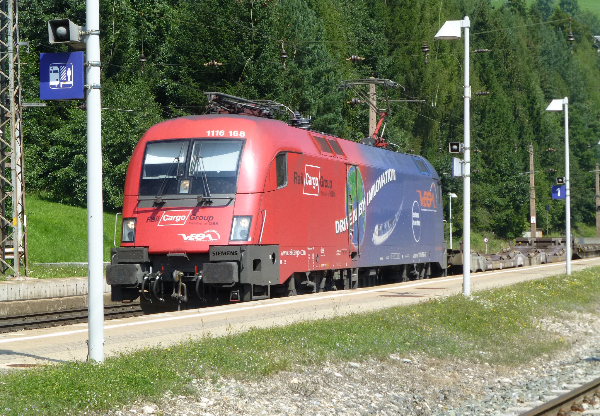 Station at Breitenstein, on the South Railway to the Semmering. Train vehicle decorated Cargo Group.